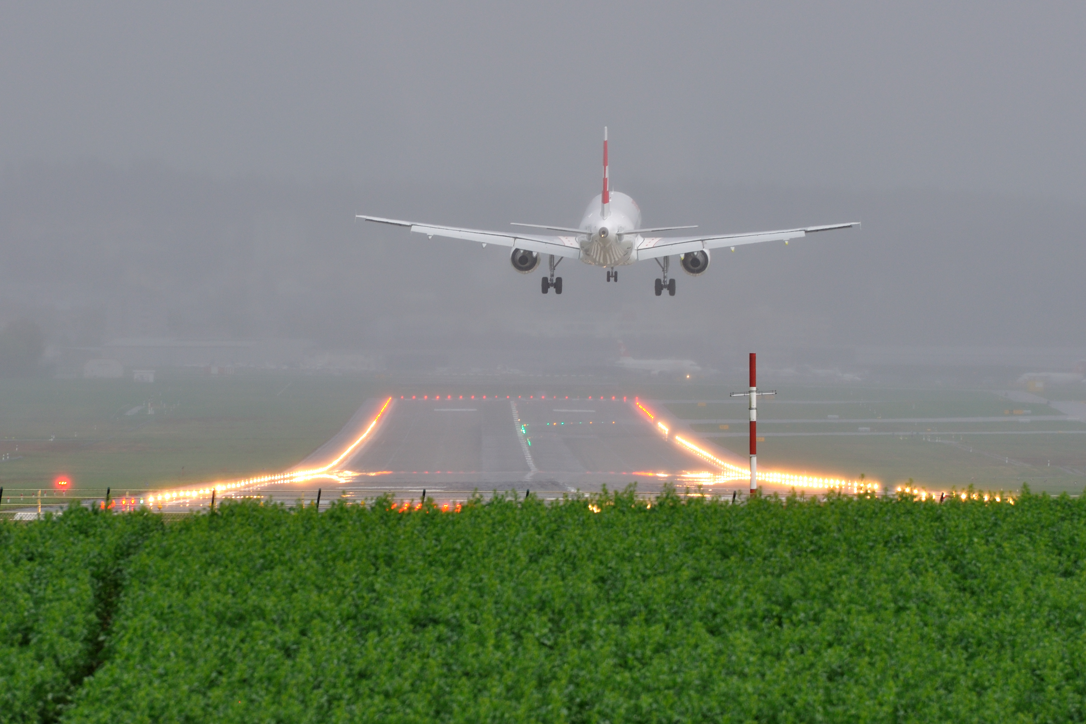 Switzerland, Canton of Zürich, spotting in the approach area of runway 14 of Zurich International Airport on a day with frequent showers.